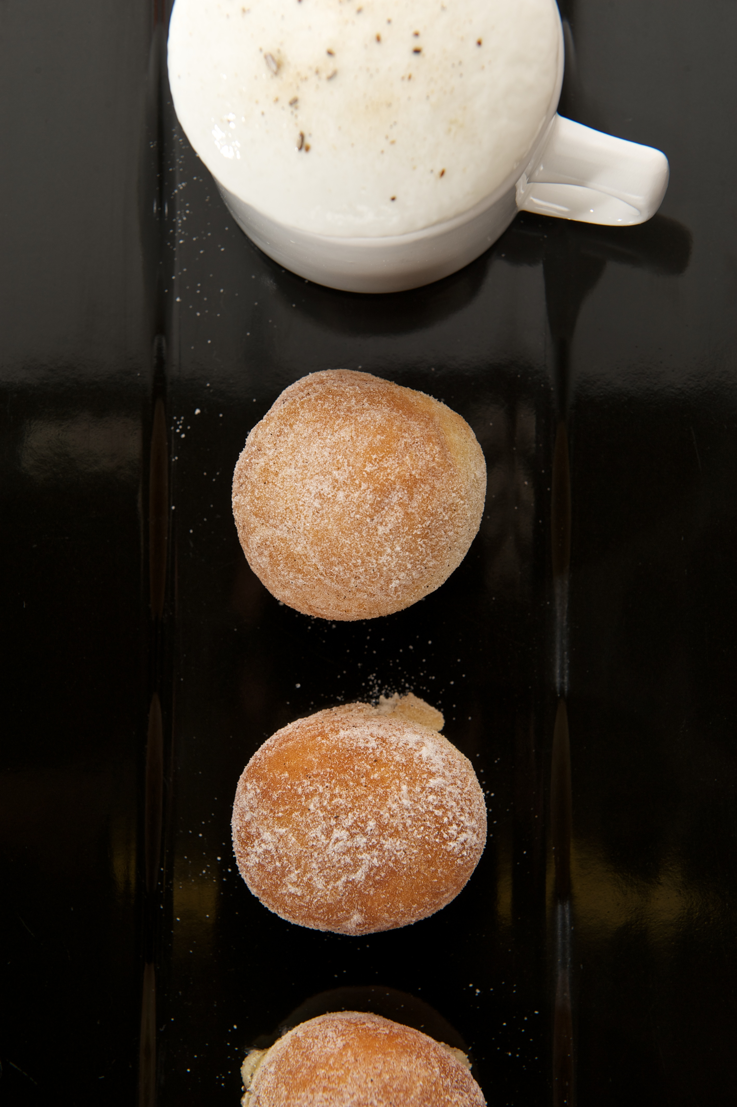 Coffee & Doughnuts